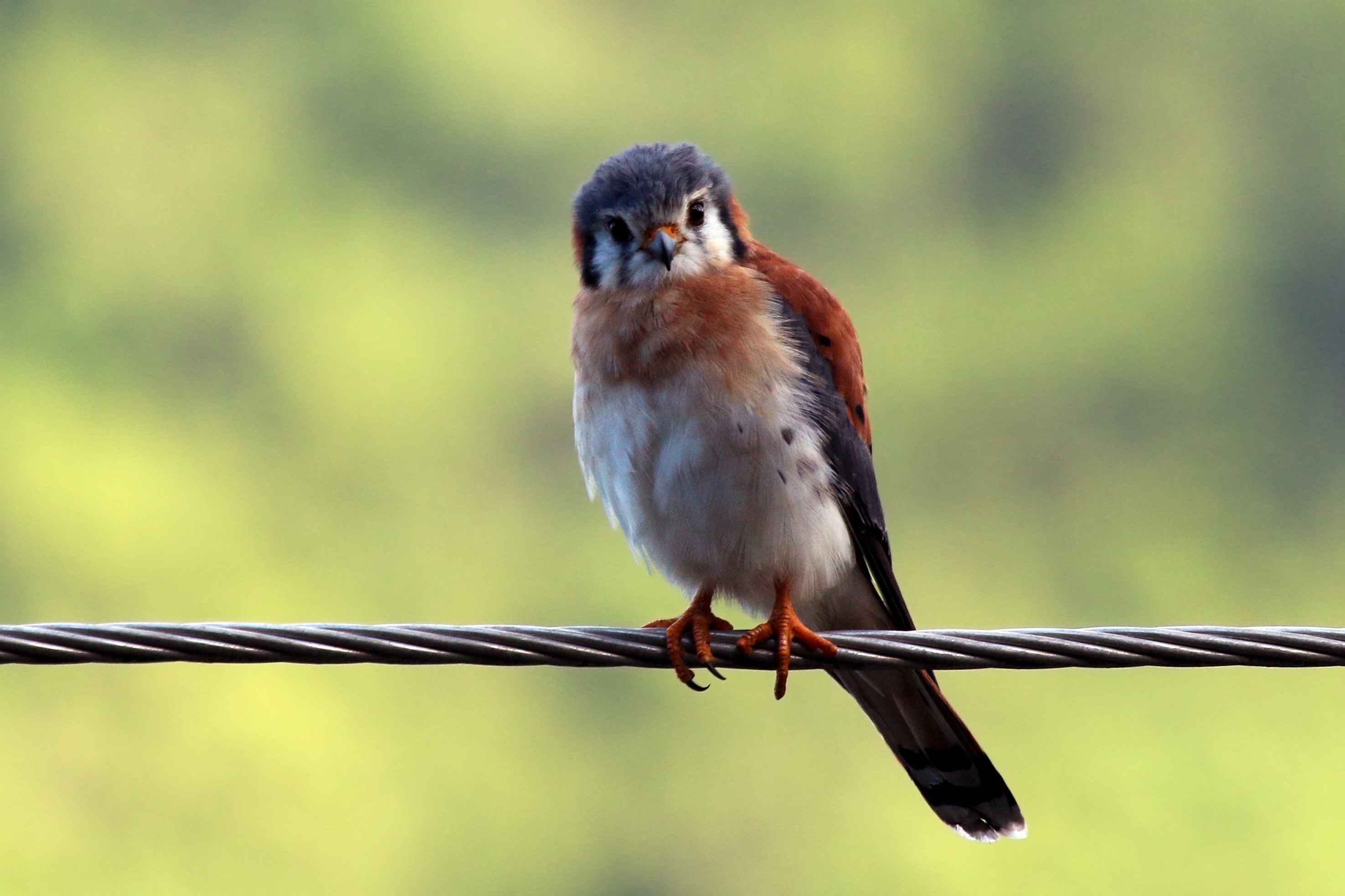 American kestrel (Falco sparverius dominicensis), Jamaica